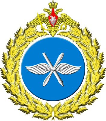 RuAF emblem